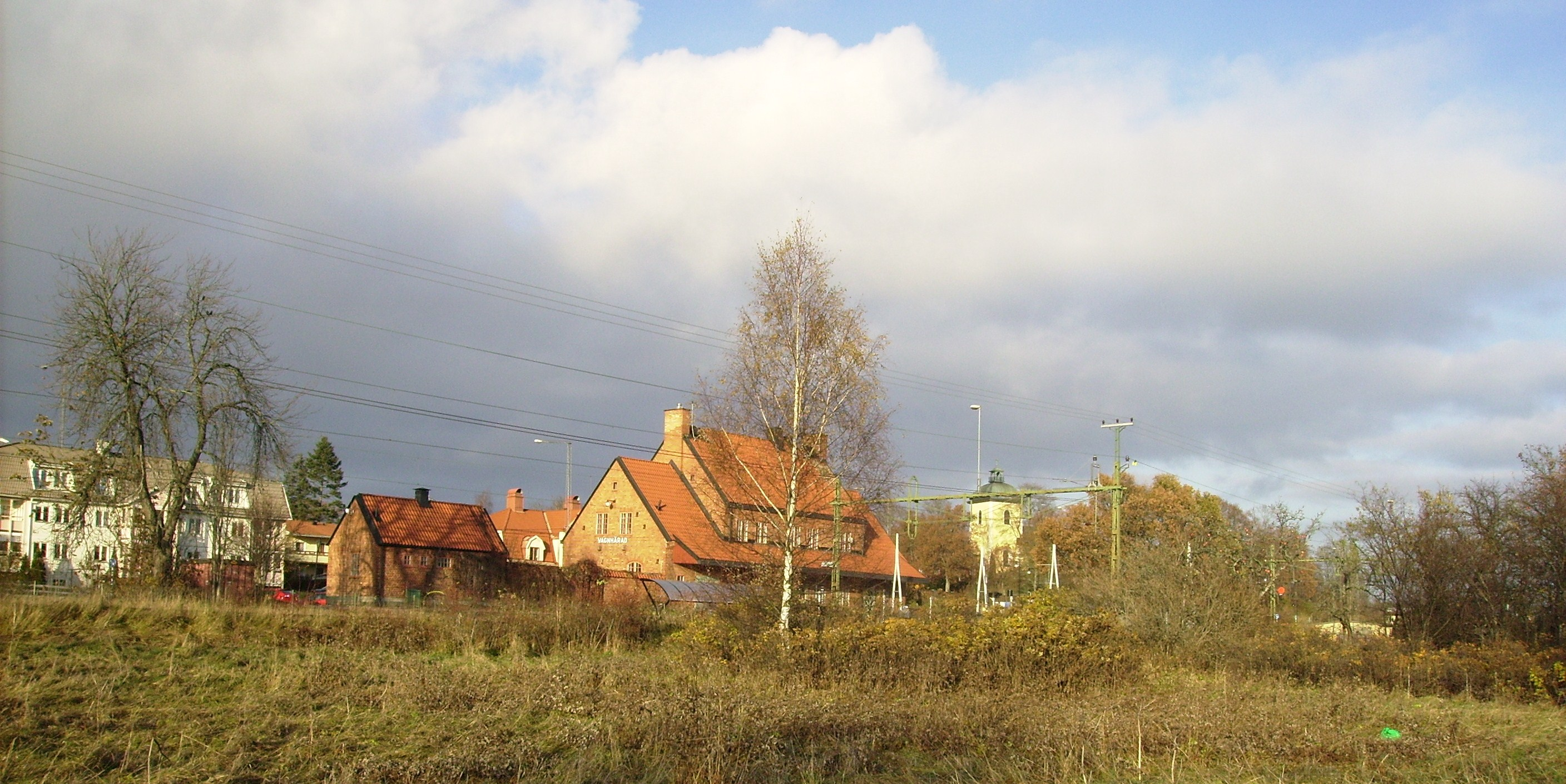 Picture of Vagnhärad